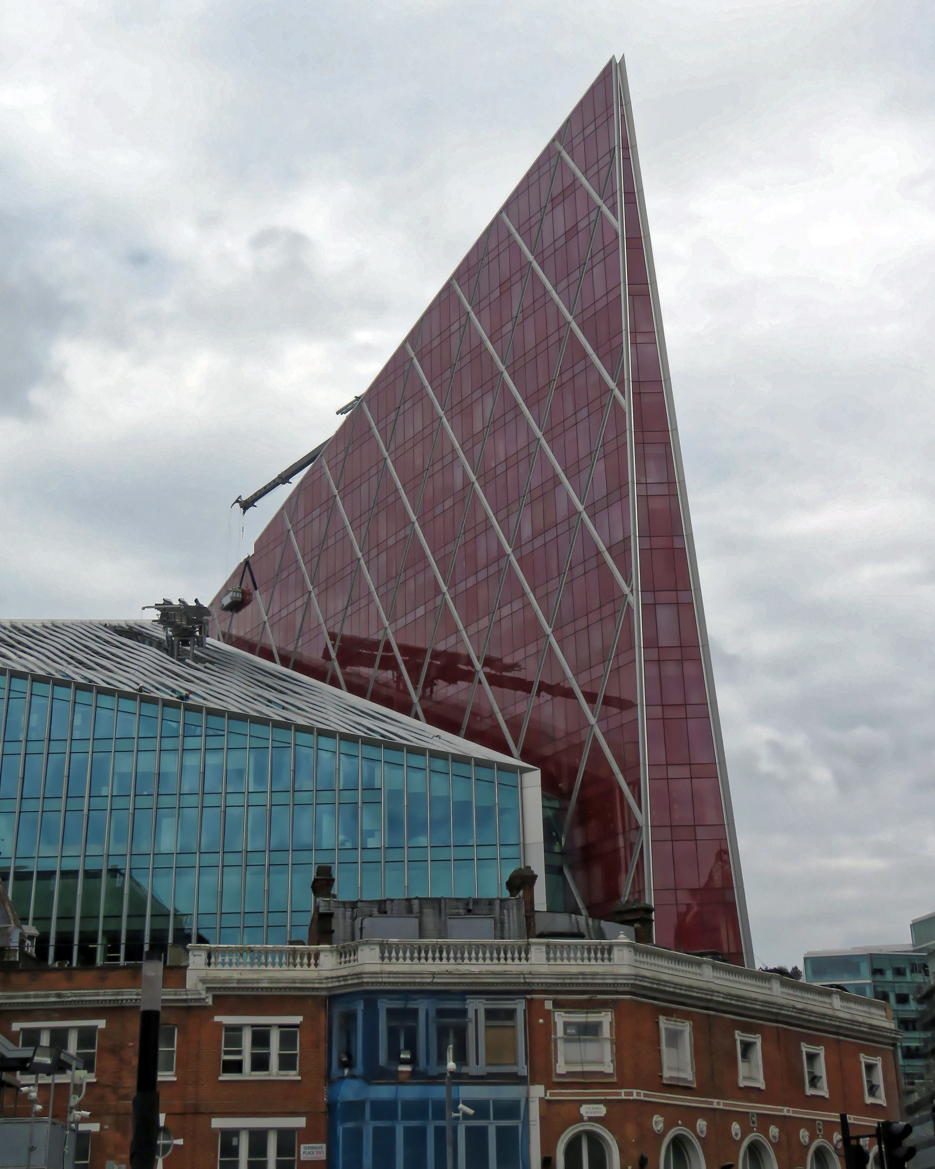 The Nova Victoria building and Nova Complex, 79 Buckingham Palace Rd, Victoria, London.The complex, approved in 2009, and completed by 2017 at a cost of £380m, is winner of the Carbuncle Cup as the ugliest building in the United Kingdom 2017, described by judges as "one of the worst office developments central London has ever seen", one that "sets a new benchmark for dystopian dysfunction", a "bright red hideous mess", "cringe-worthy", "crass, over-scaled and hideous", "an assault on all your senses from the moment you leave the Tube station", and pointing out "the bright red prows that adorn various points of the exterior like the inflamed protruding breasts of demented preening cockerels".Camera: Canon PowerShot SX60 HSSoftware: File lens-corrected, optimized, perhaps cropped, with DxO OpticsPro 11 Elite, and likely further optimized with Adobe Photoshop CS2.